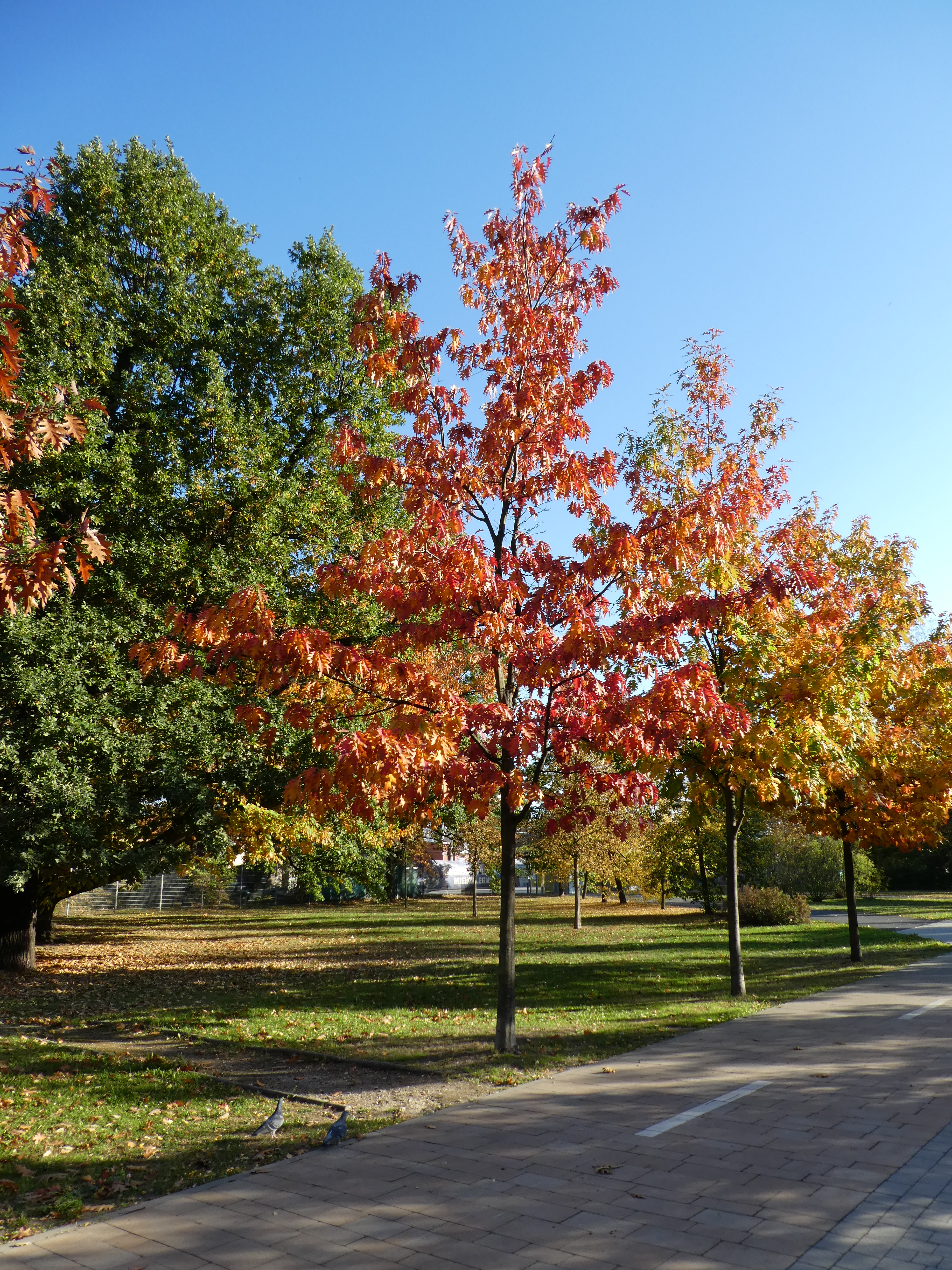 City park in Legnica, part of Aleja Orła Białego next to Miedź Legnica stadium